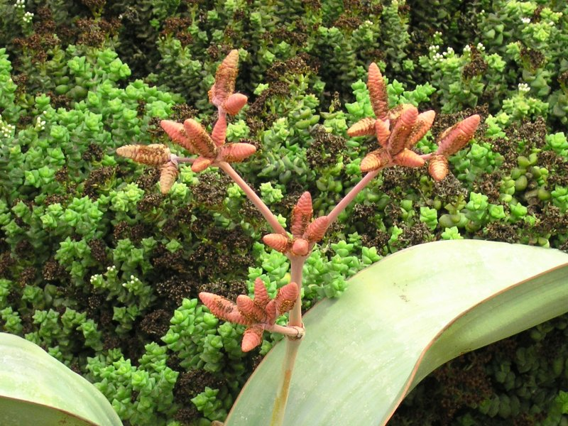 Name:Welwitschia mirabilis. Family:Welwitschiaceae (male with inflorescence, botanical garden WWU Münster, Germany)